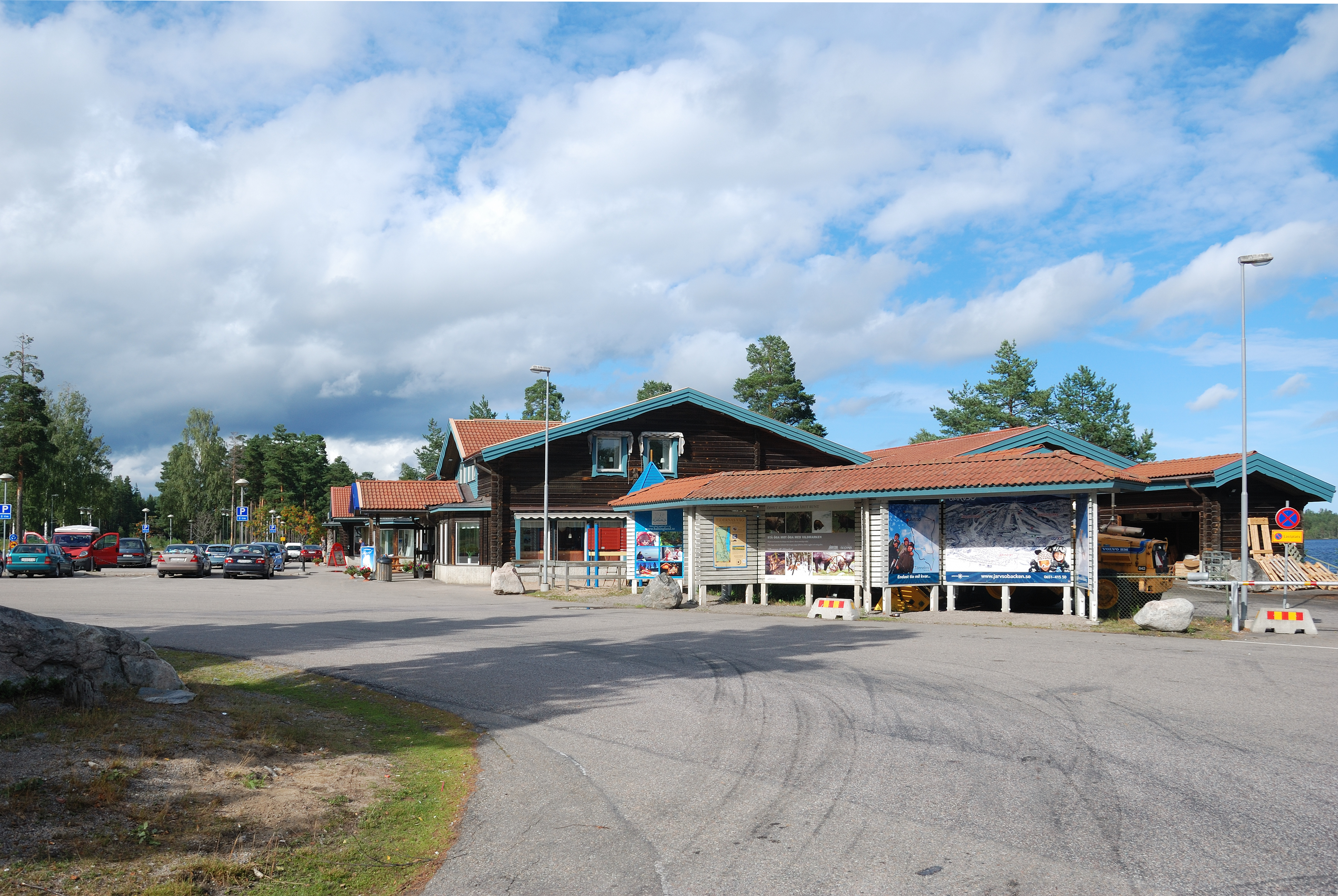 Tönnebro